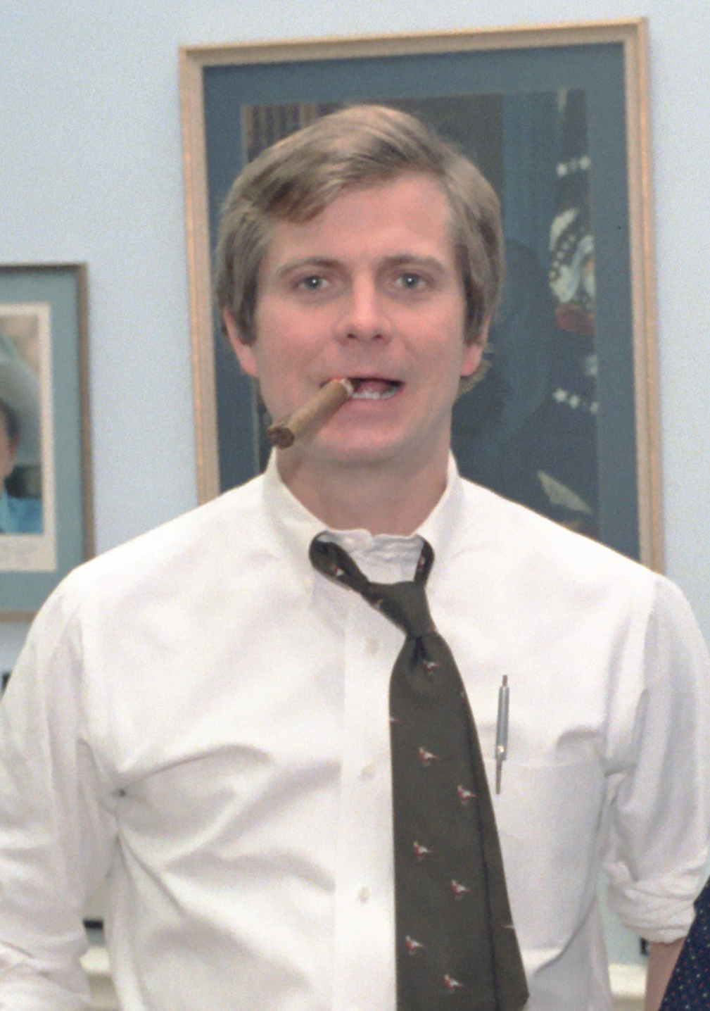 1/21/1982 Lyn Nofziger talking with Lee Atwater in Nofzigers office in the White House